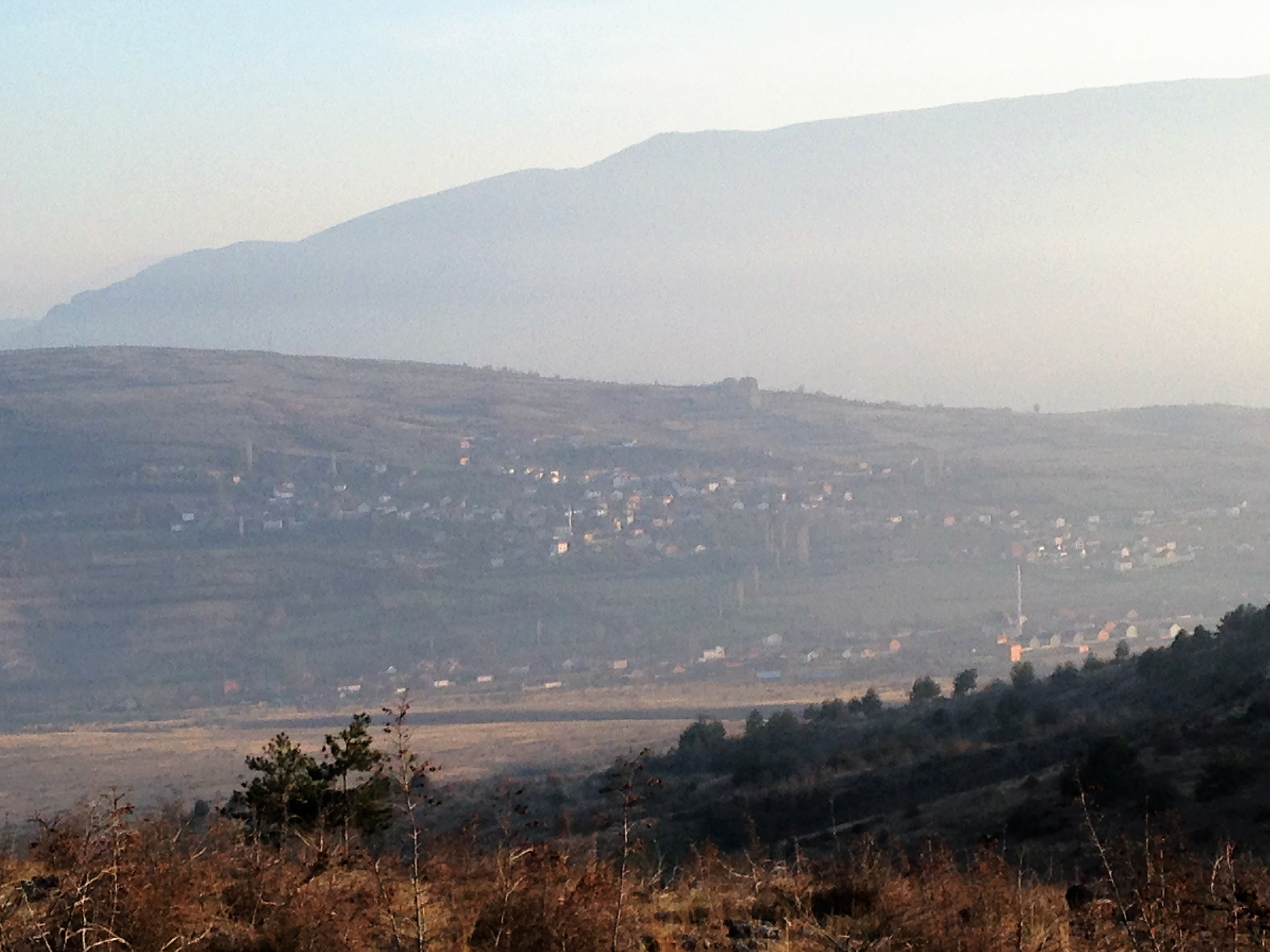 village of Kopanica, near Skopje, Macedonia